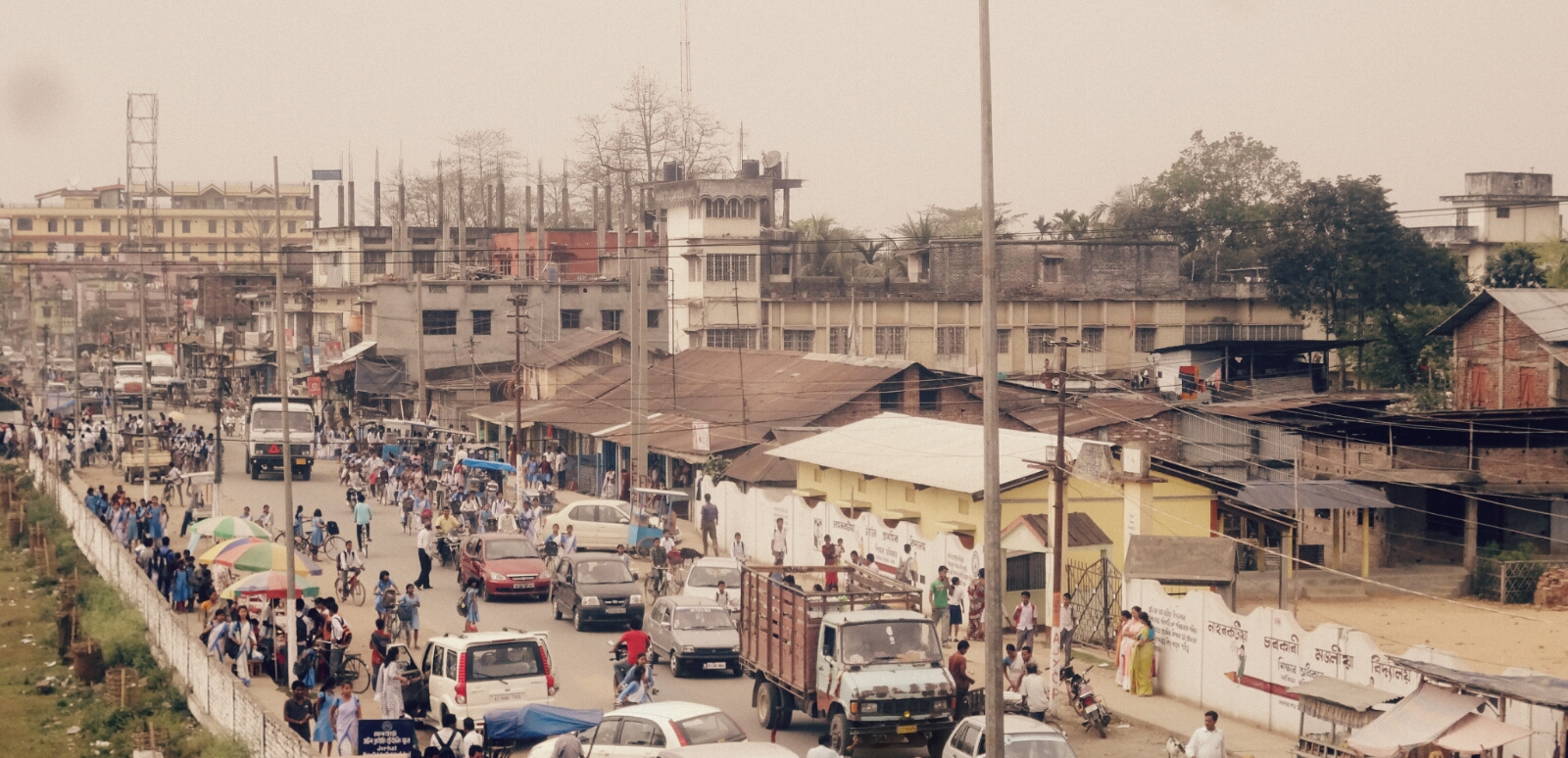 Naharkatiya ariel view (near Tuesday Bazar)